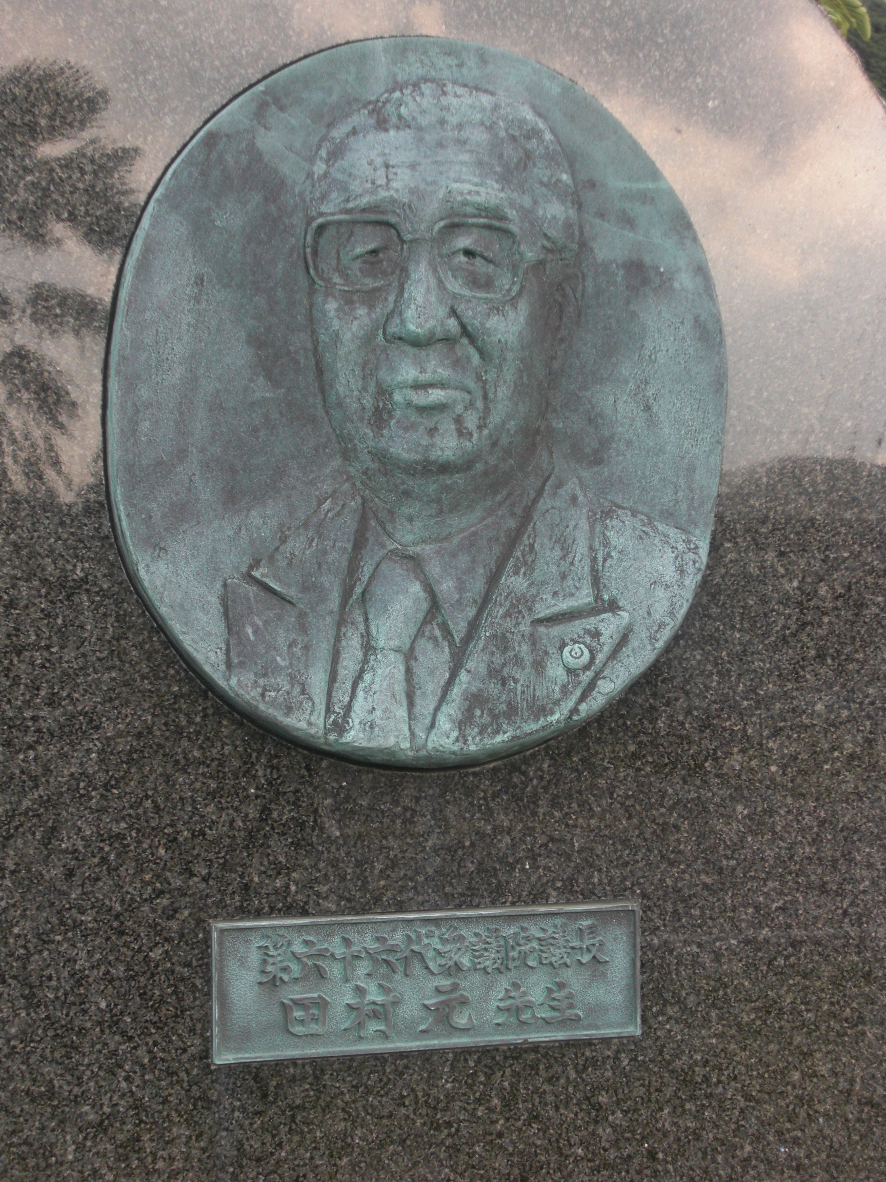 It is a monument in Toshi Island (Momotori-cho), Mie, Japan. Hajime Tamura is a member of the House of Representatives of Japan who was elected by people in Mie prefecture.